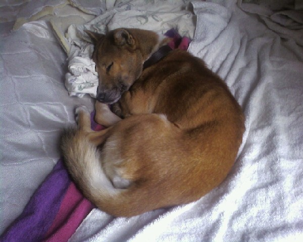 To learn more about these rare and primitive dogs, go to